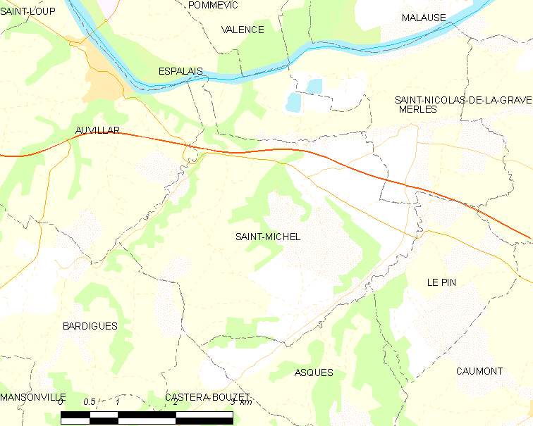 Map of French municipality Saint-Michel